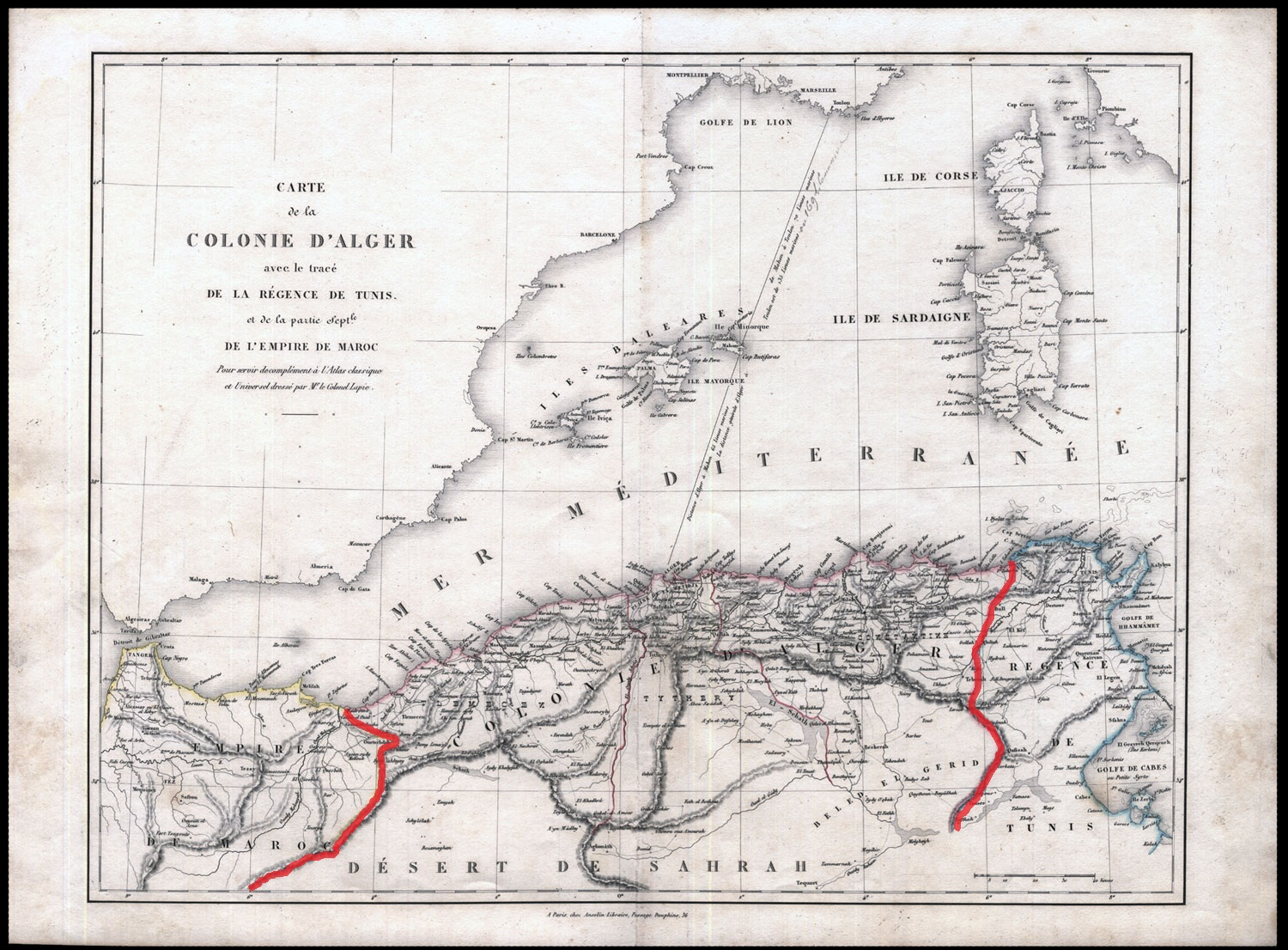 Map of the Colony from Algiers with the traces of the Regency of Tunis and part of the Empire of Morocco (Plate 43) Pierre M. Lopie 1828